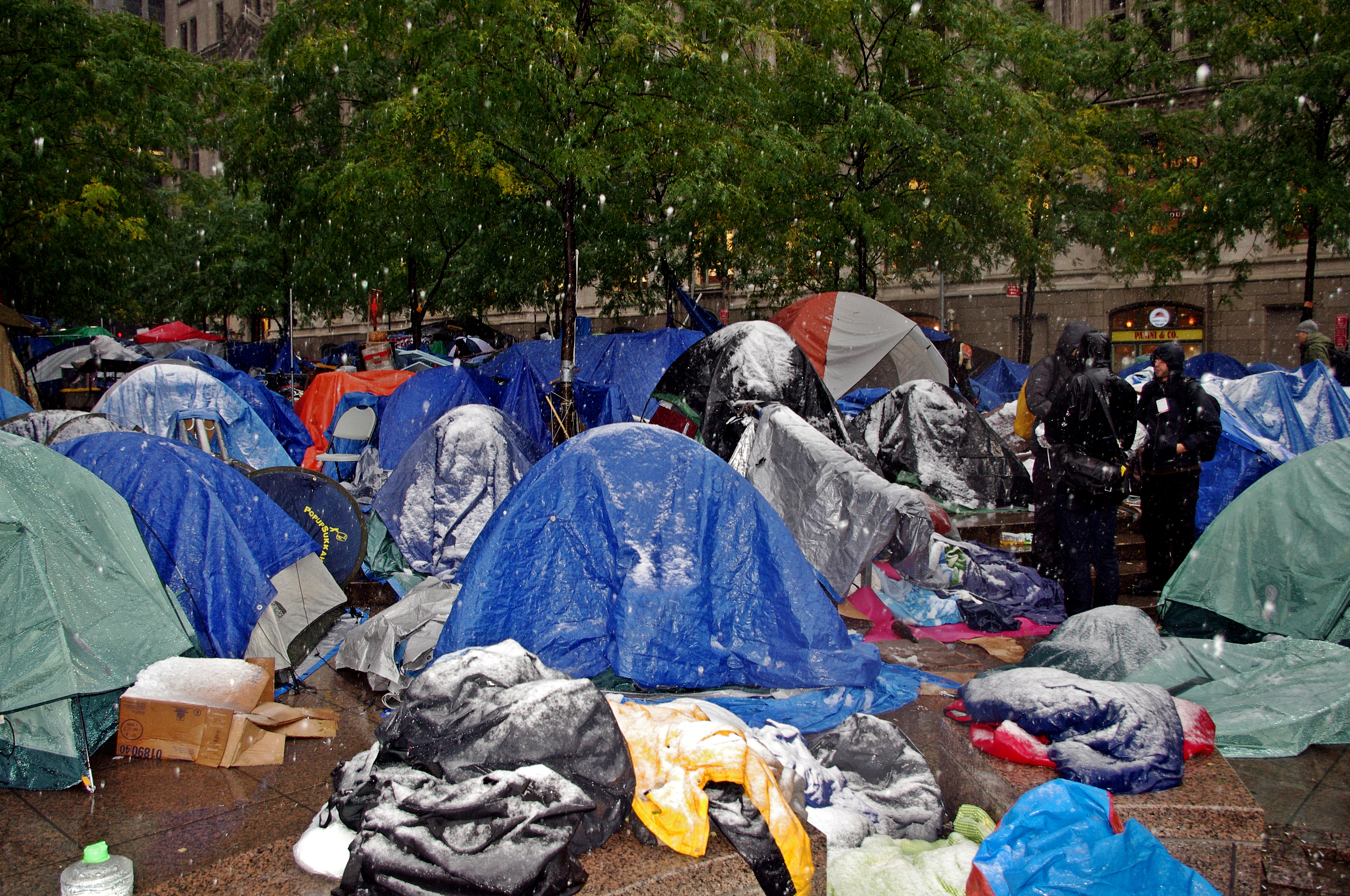 Occupy Wall Street camp on Saturday, October 29, the day of the early winter storm. Photos of OWS the protesters and their tent city.